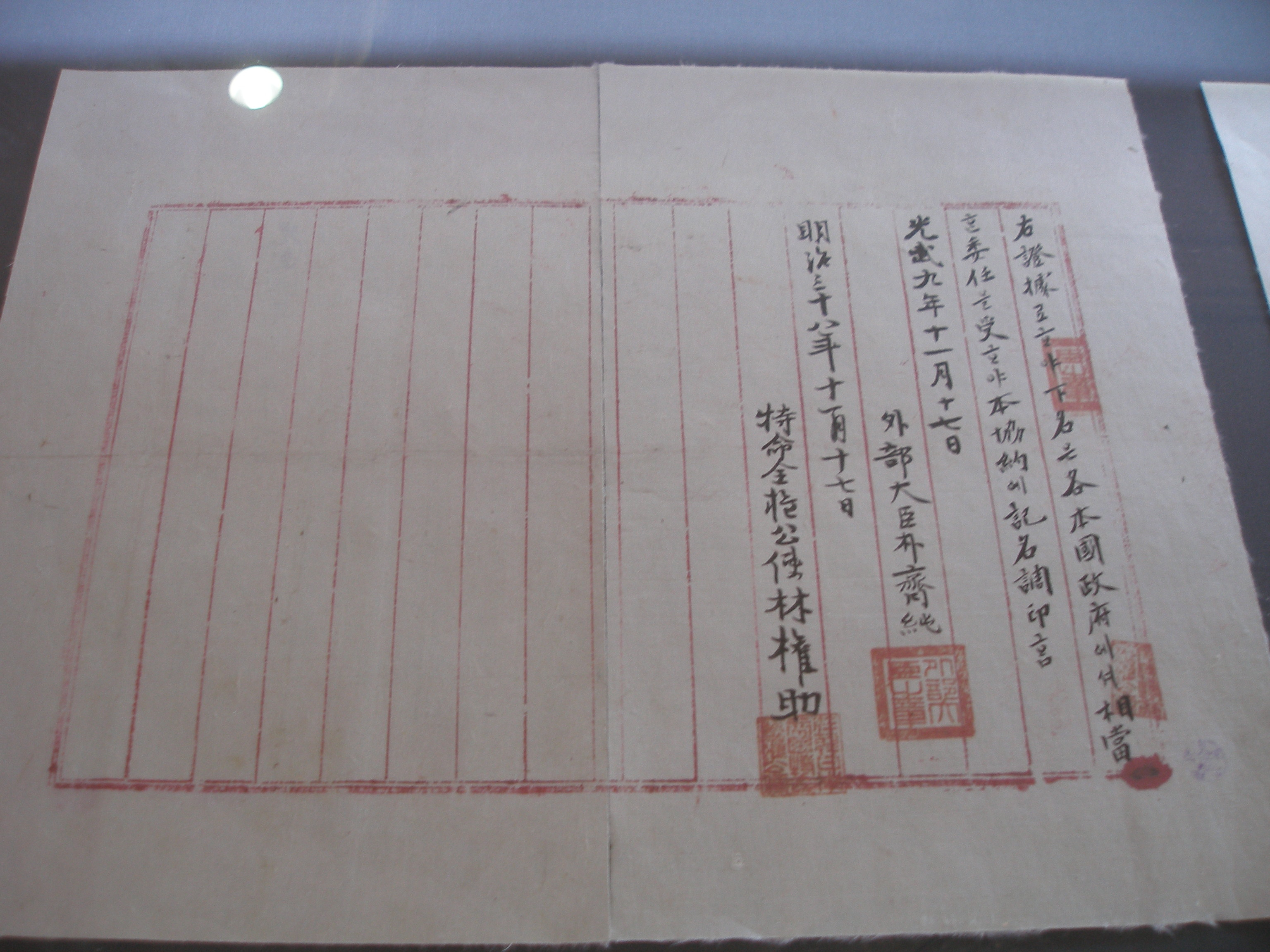 Outcommings of Wikipedia takes Jeongdong 위키백과:위키백과, 정동을 찍다에서 찍은 사진 Eulsa treaty, Korean version 3/3